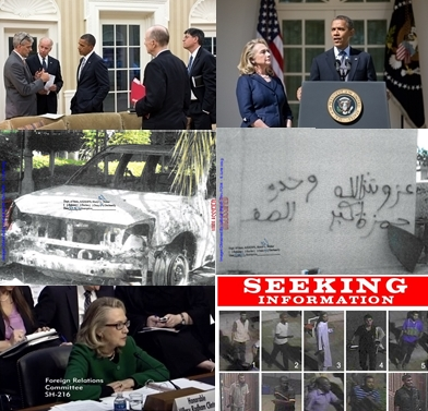 A montage of six images, from top to bottom, and left to right: the President and Vice President being updated on the situation in the Middle East and North Africa night of September 11, 2012; President Obama, with Secretary of State Clinton, delivering a statement in the Rose Garden of the White House, Sept. 12, 2012, regarding the attack on the U.S. consulate; two photographs released through a FOIA request showing (post-attack) burned automobile and spray paint graffiti of militant Islamist slogans on ransacked consulate building; Secretary Clinton testifying before the Senate Committee on Foreign Relations on January 23, 2013; portion of "wanted" poster from FBI seeking information on the attacks in Benghazi.